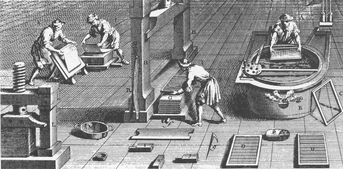 Paper manufacuring, illustration to Diderot's Encyclopédie.